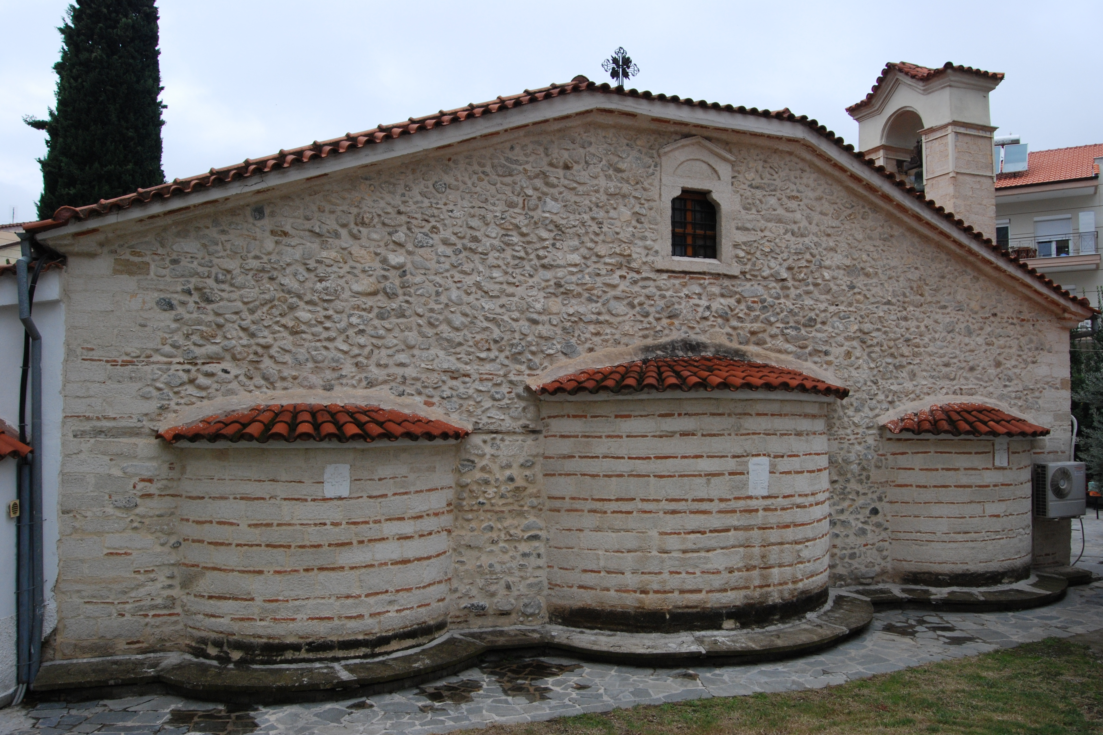 Saint Marina and Saint Anthonius Church